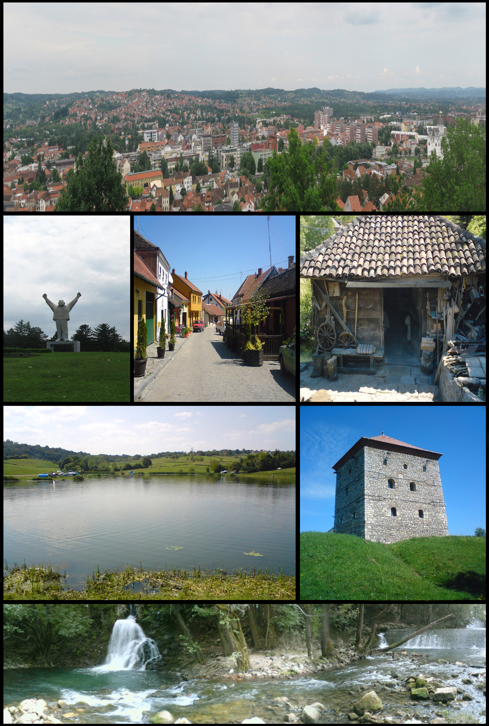 From top:Valjevo Panoramic view, Stjepan Filipović monument, Tešnjar, Old Water mill, Petnica Lake, Tower of Nenadović, River Gradac.